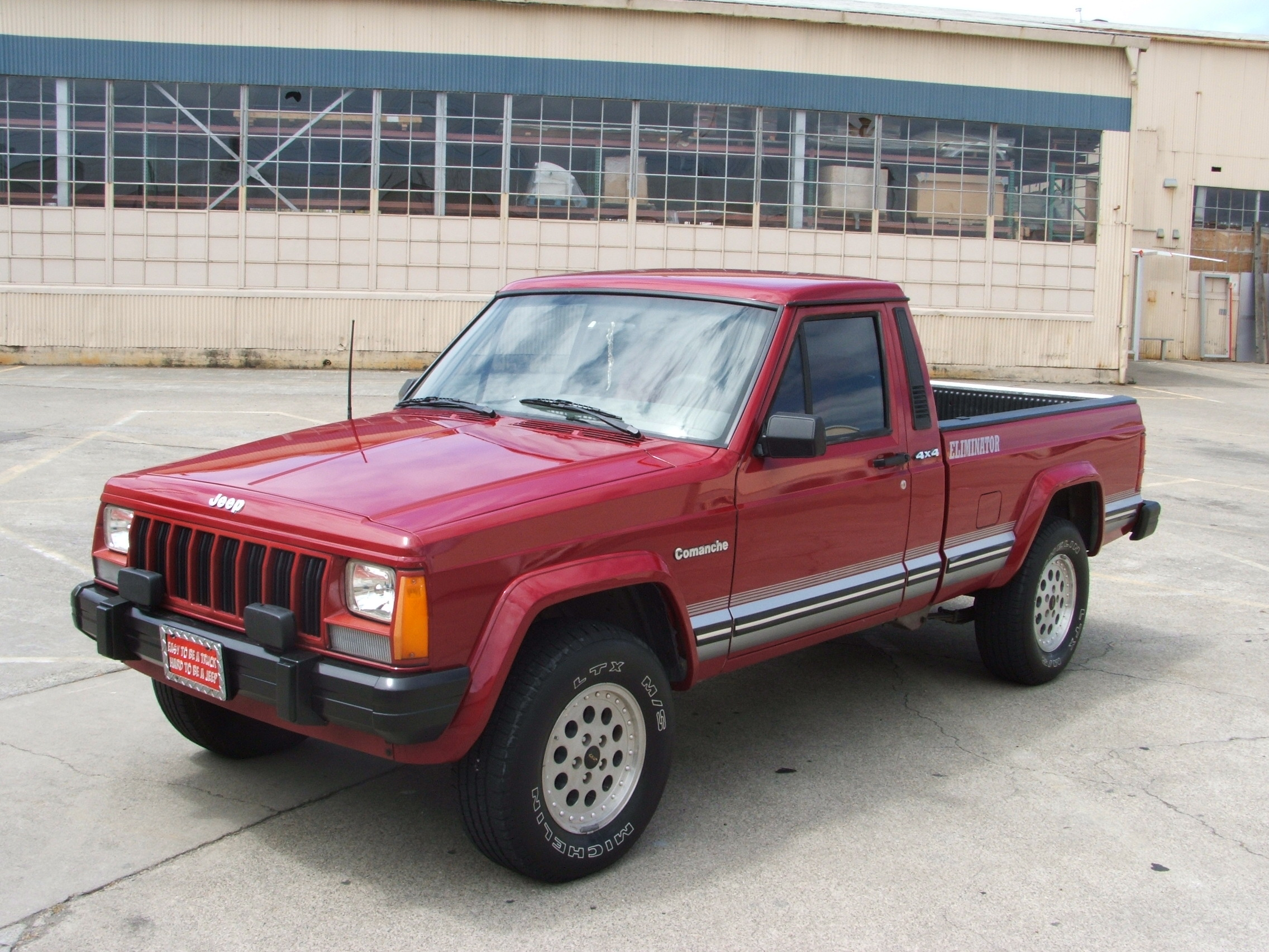 Beautiful!